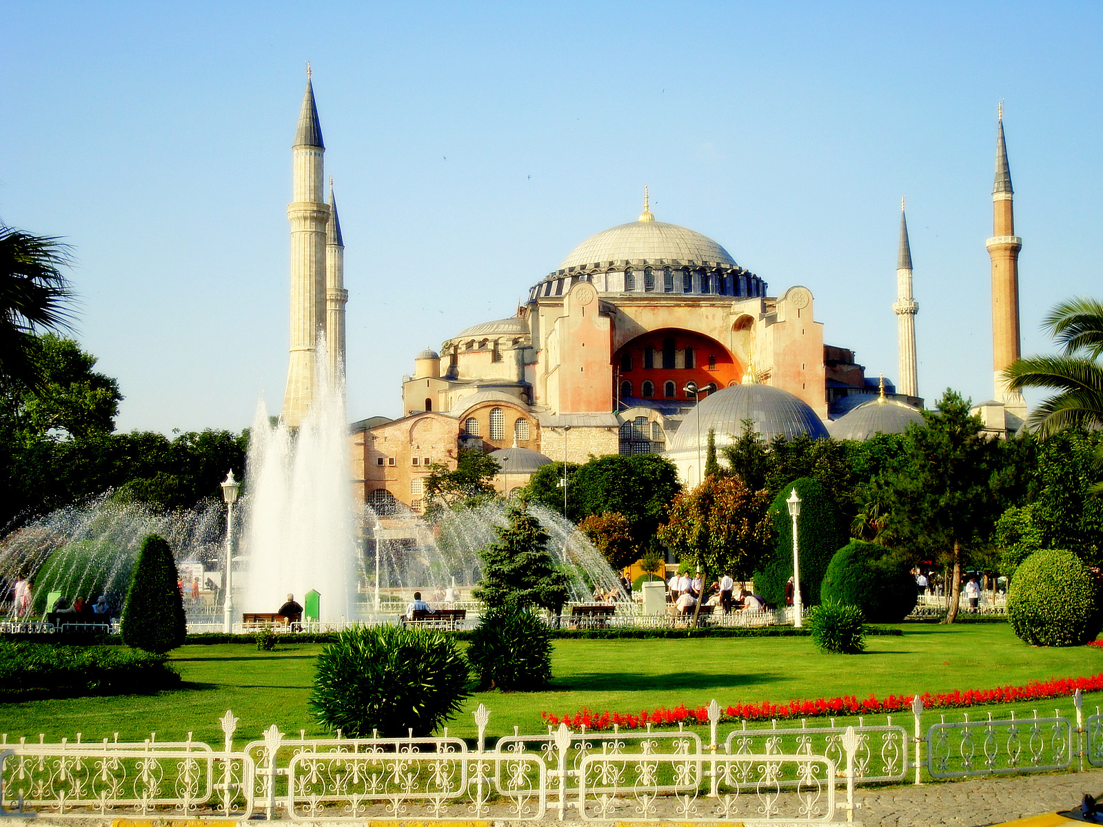 St. Sophia, Istanbul, Turkey